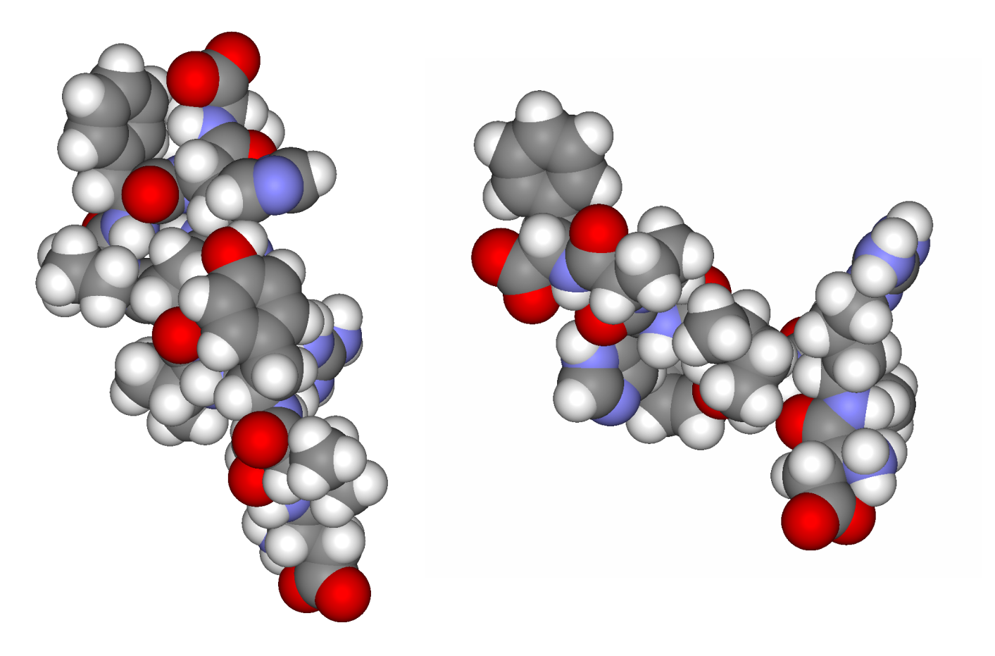 Spacefilling models of angiotensin I (left) and angiotensin II (right). Created using Accelrys DS Visualizer Pro 1.6 and the GIMP.